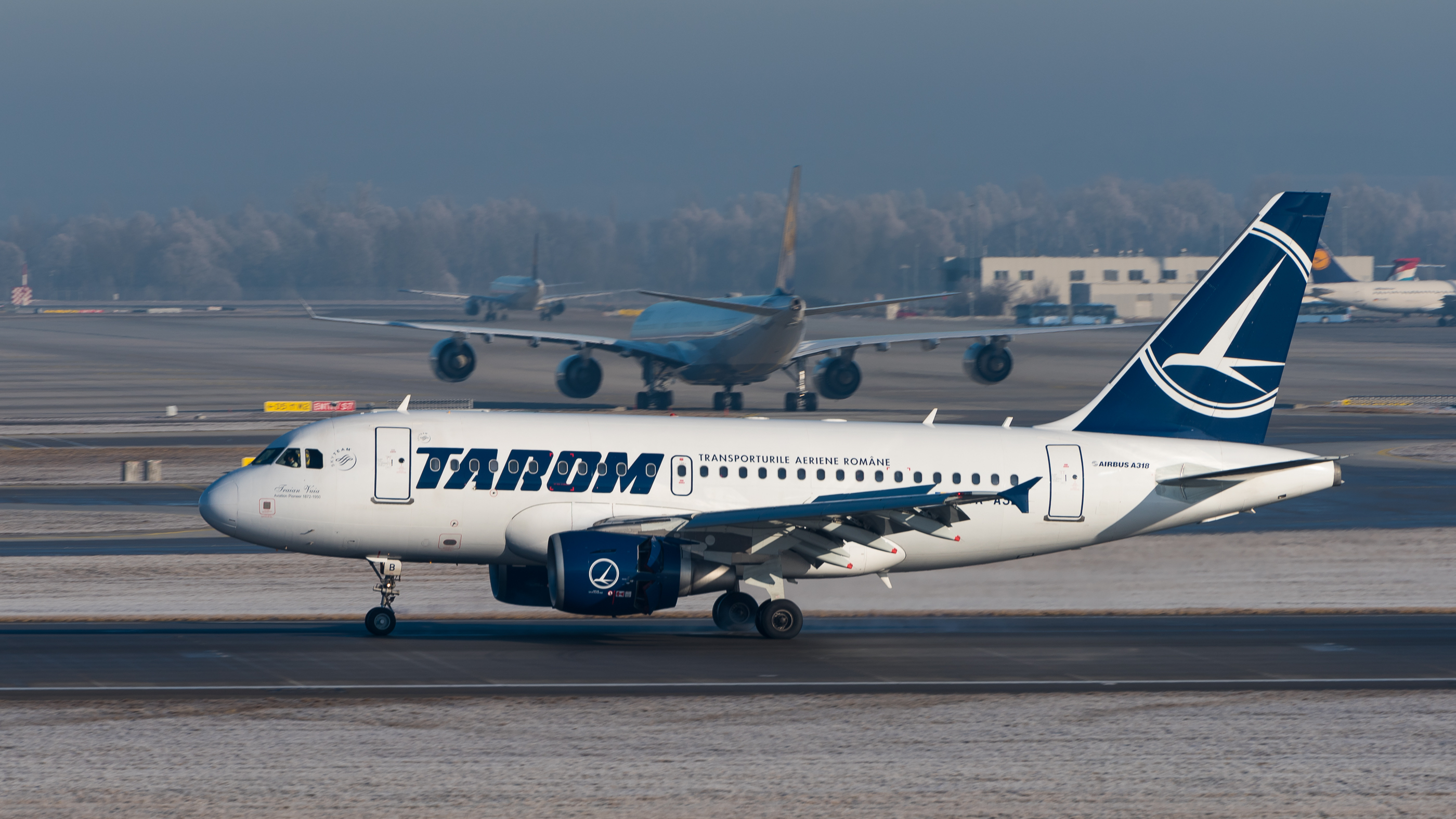 Tarom Airbus A318-111 (reg. YR-ASB, msn 2955) at Munich Airport (IATA: MUC; ICAO: EDDM).